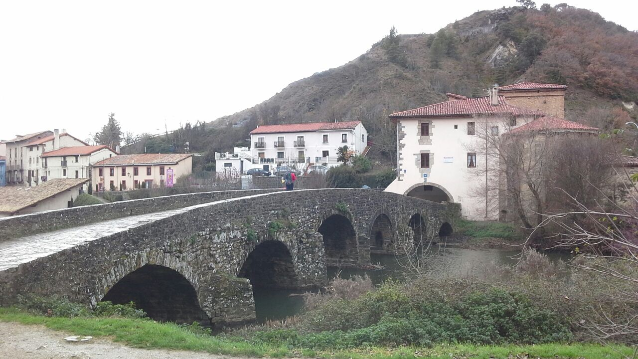 Spanish village called Villaba, in Navarre.